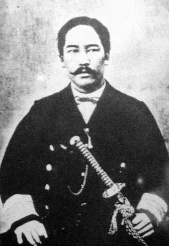 Enomoto Takeaki (榎本武揚, August 25, 1836 – August 26, 1908) was a Japanese politician.